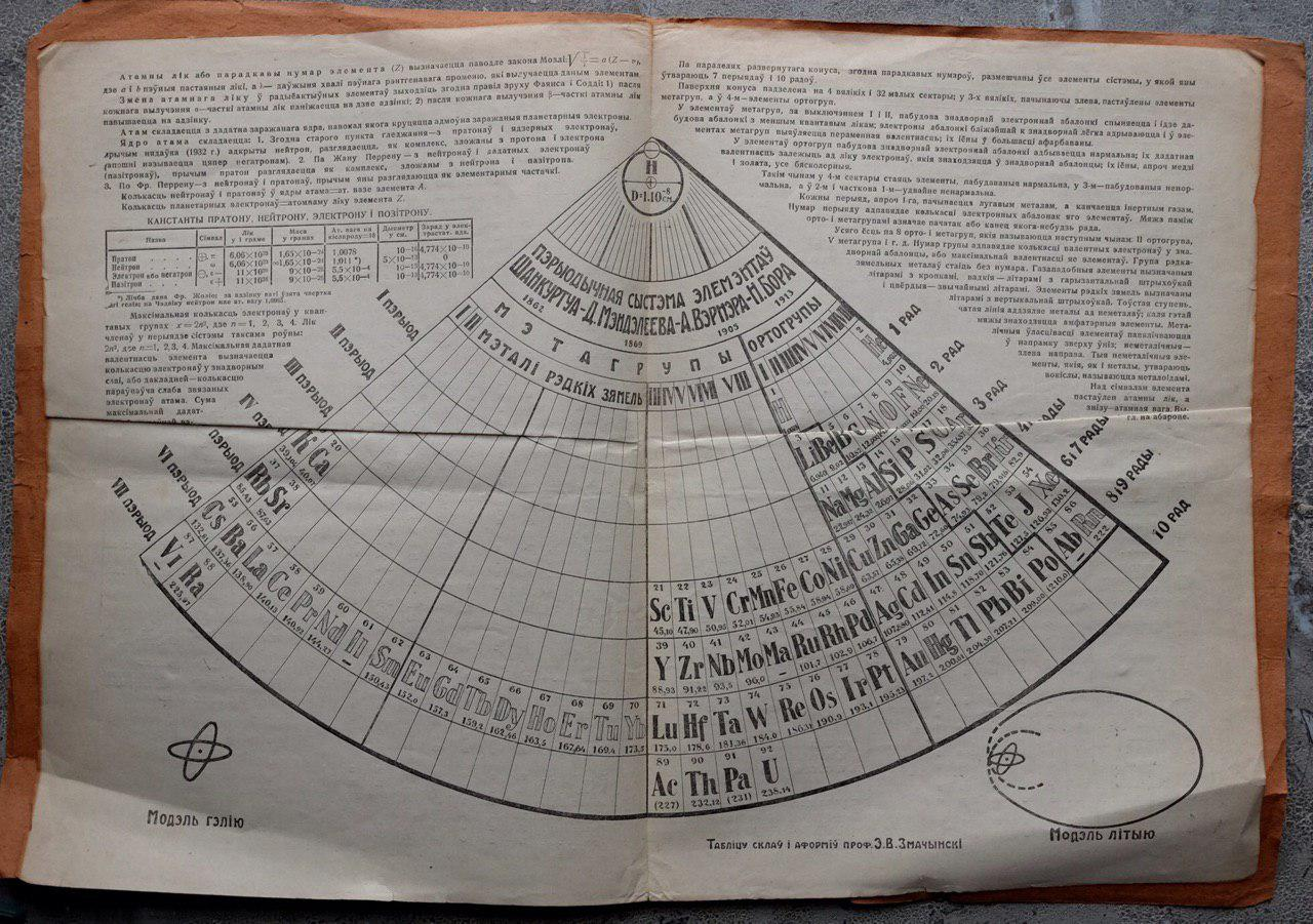 A Triangular Periodic Table by Emil Zmaczynski